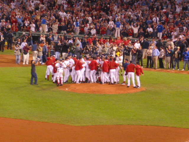 The Boston Red Sox celebrating their clinching the American League Wild Card berth. Taken at Fenway Park by Dudesleeper on September 25, 2003. Dudesleeper . . 640×480 (138 KB)